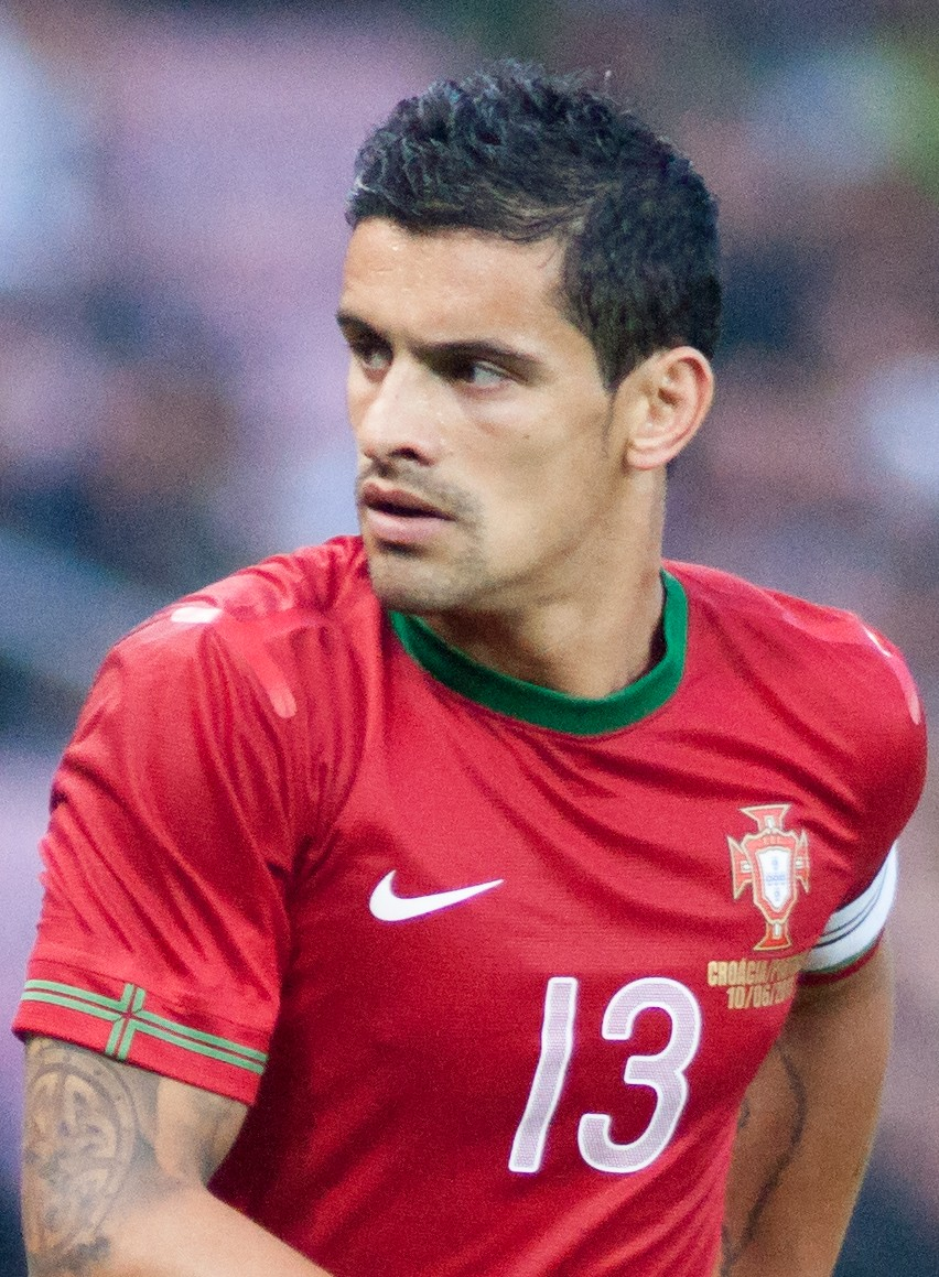 Croatia vs. Portugal, 10th June 2013